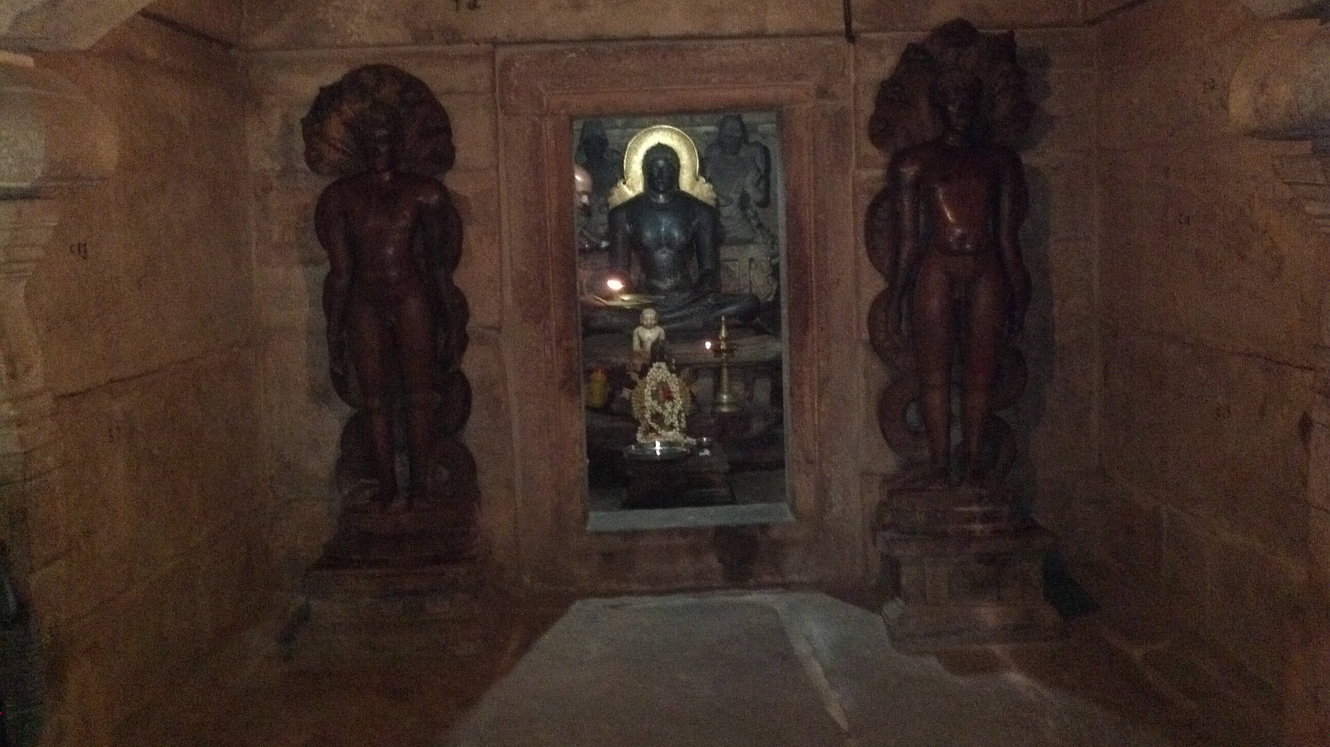 There are 6 temples in this village, located 18 KM from sravanbelgola.This temple is more then 2000 year old.